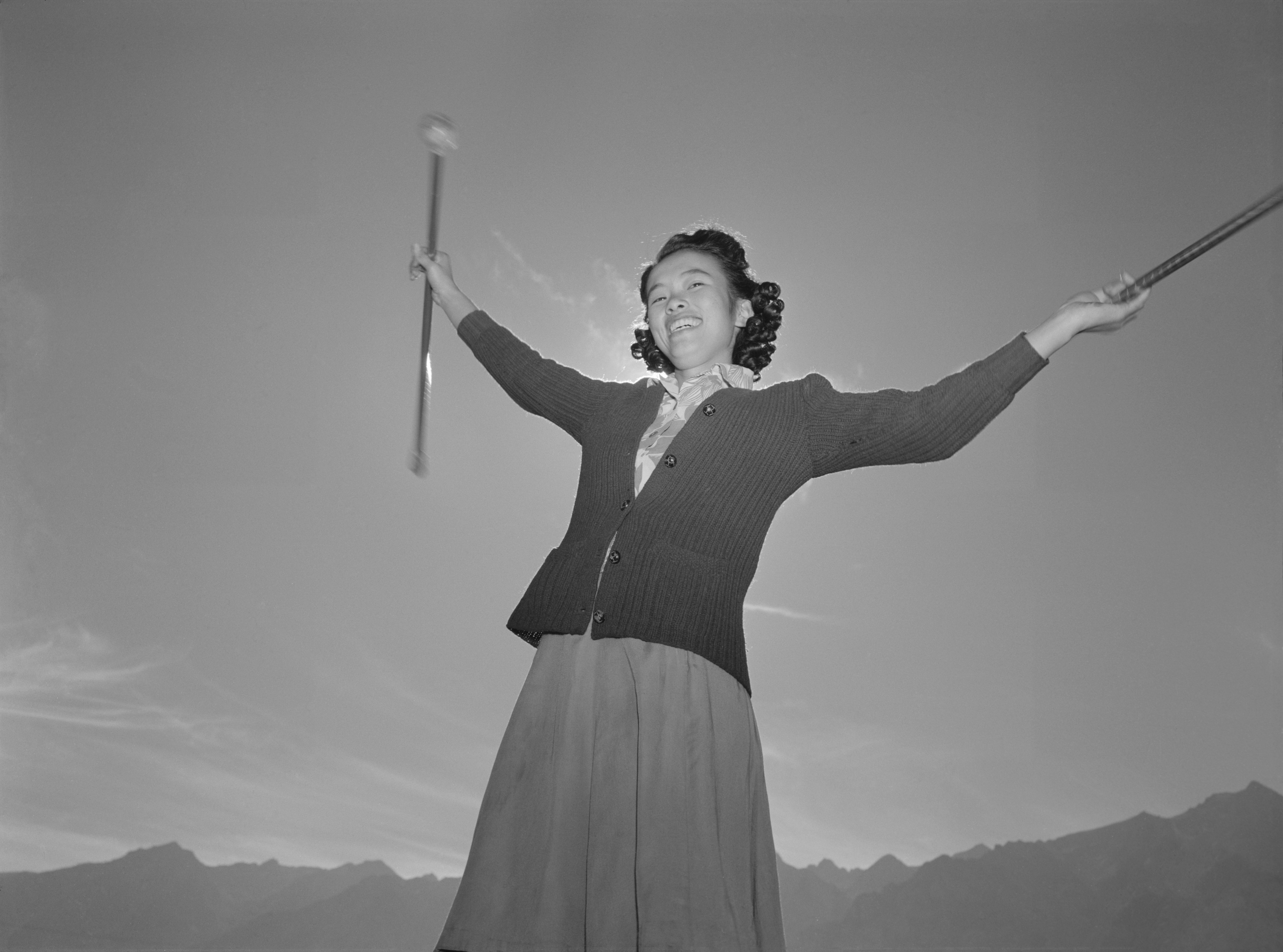 Florence Kuwata, three-quarter length portrait, standing, arms outstretched, holding a baton in each hand.